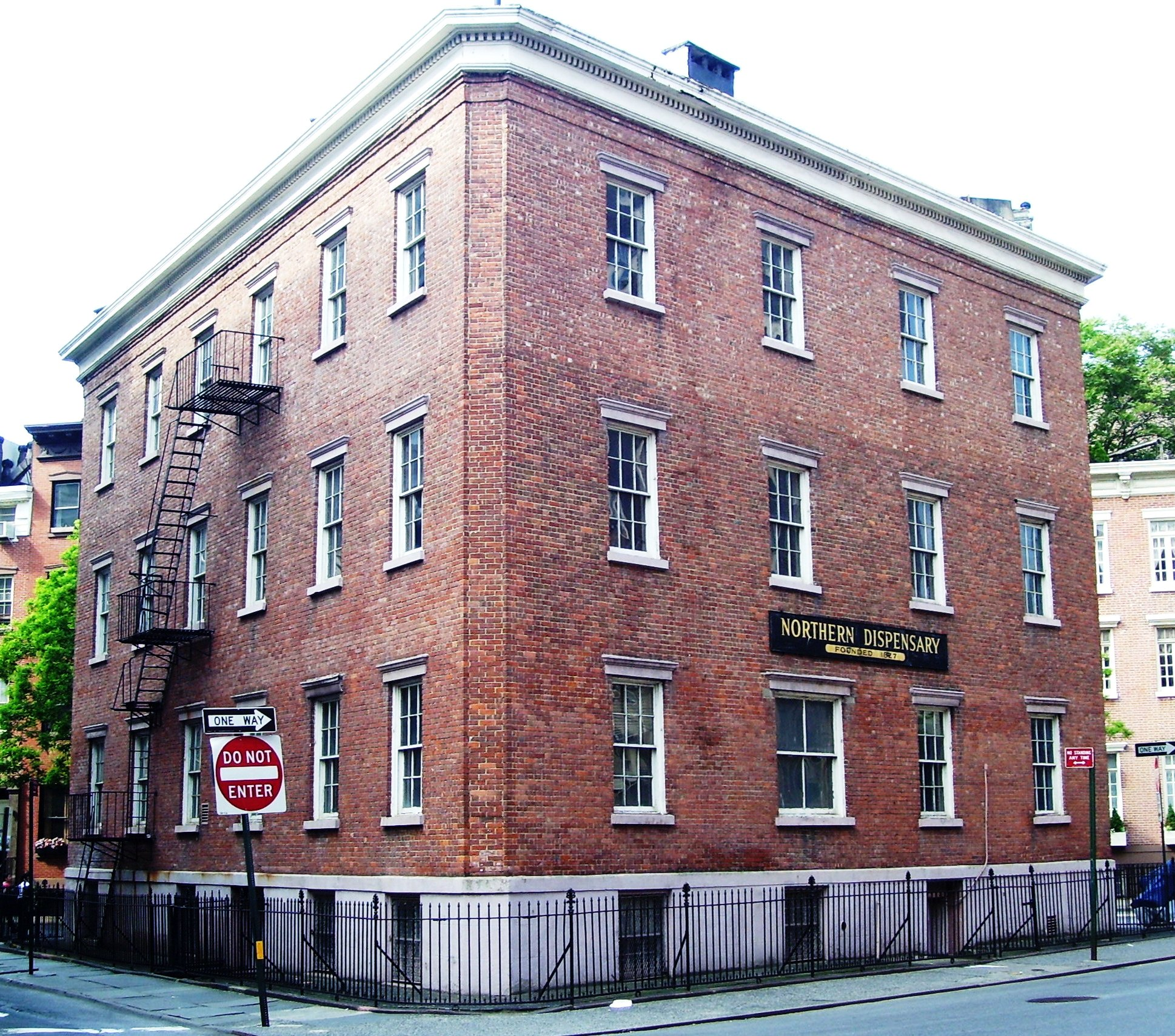 The Northern Dispensary at 167 Waverly Place where it intersects Grove Street and Christoper Street in the Greenwich Village neighborhood of Manhattan, New York City, was built in 1831 in the Federal style, with a third floor added in 1855. It was a private medical clinic for the poor, started in 1824. It is located within the Greenwich Village Historic District. (Source: Guide to NYC Landmarks (4th ed.)) The building is triangular, due to the way the streets around it intersect.